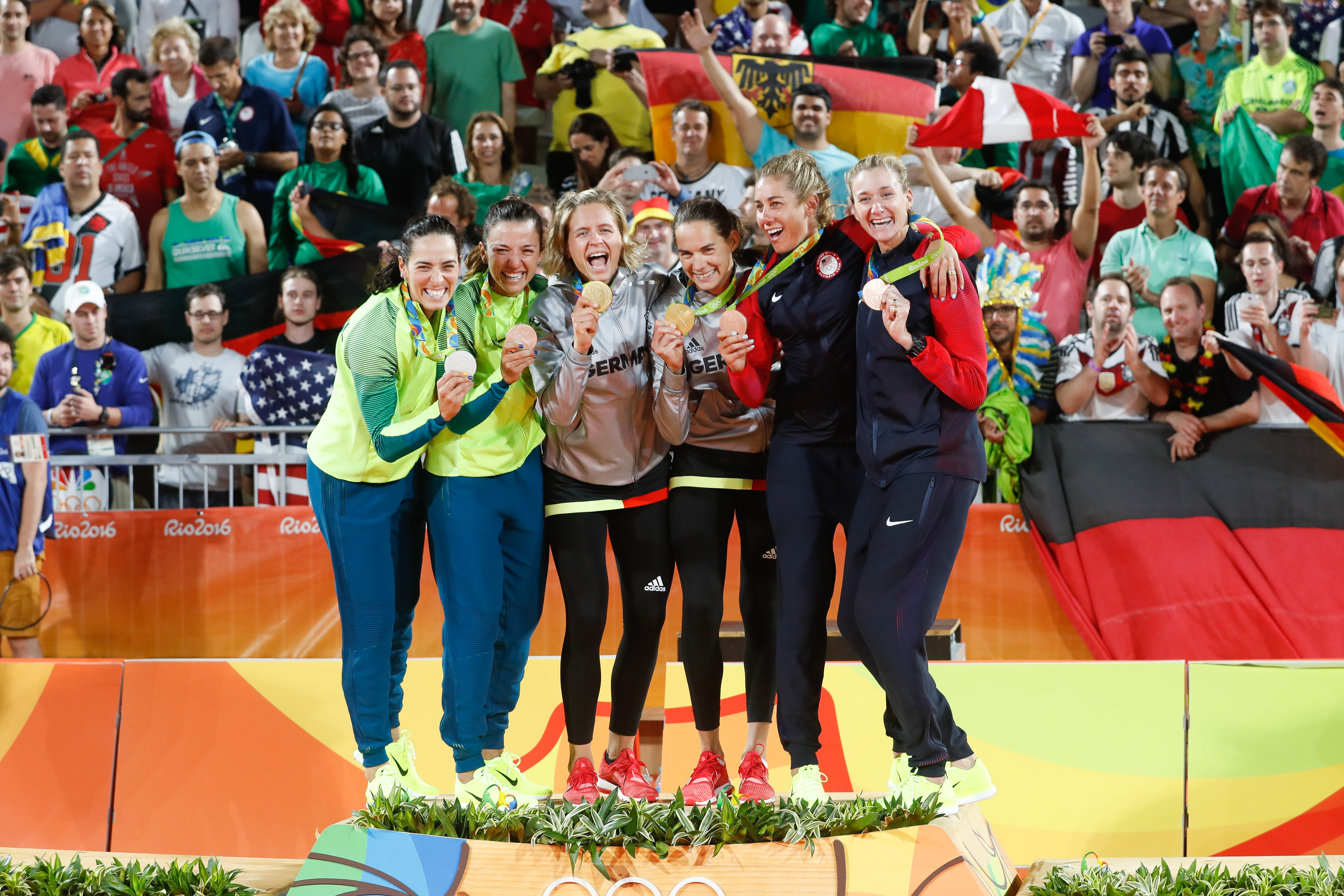 Rio de Janeiro - As alemãs Ludwig e Walkenhorst, levam ouro na final do vôlei de praia, contra as brasileiras, Ágatha e Bárbara, nos Jogos Olímpicos Rio 2016 ( Fernando Frazão/Agência Brasil)